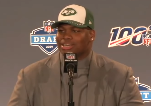 Quinnen Williams in 2019